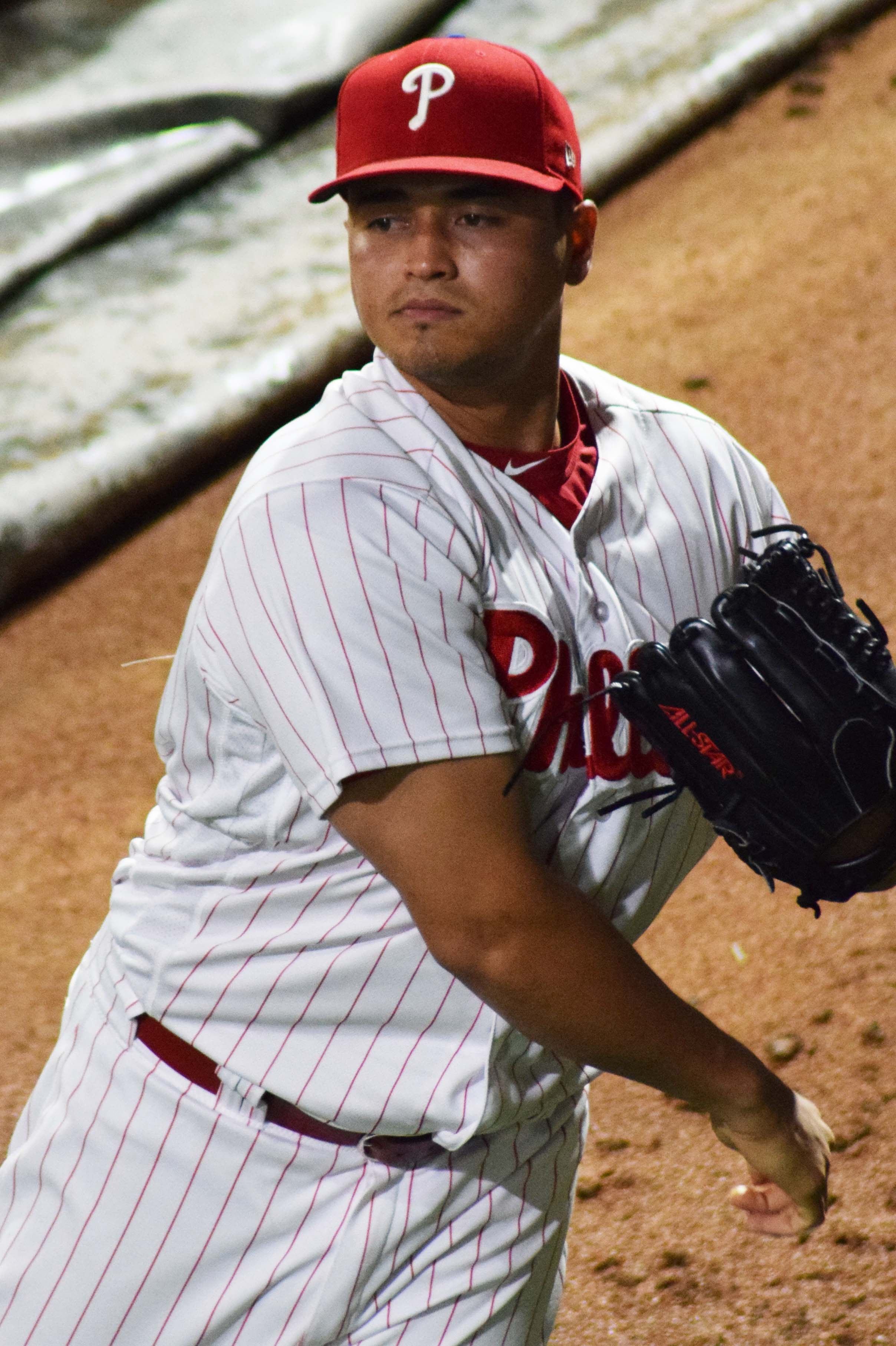 Philadelphia Phillies relief pitcher Victor Arano